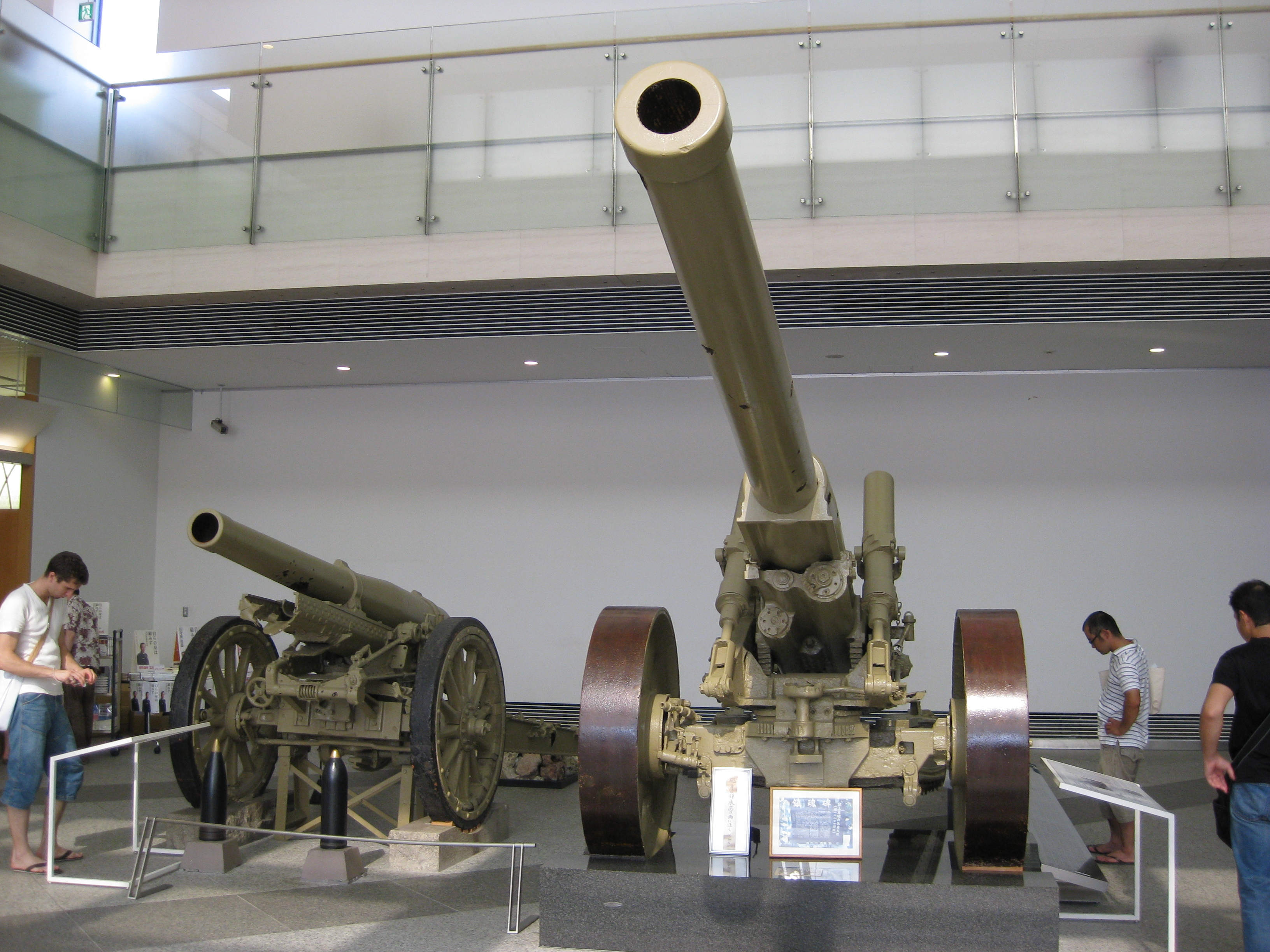 Howitzers in Yushukan